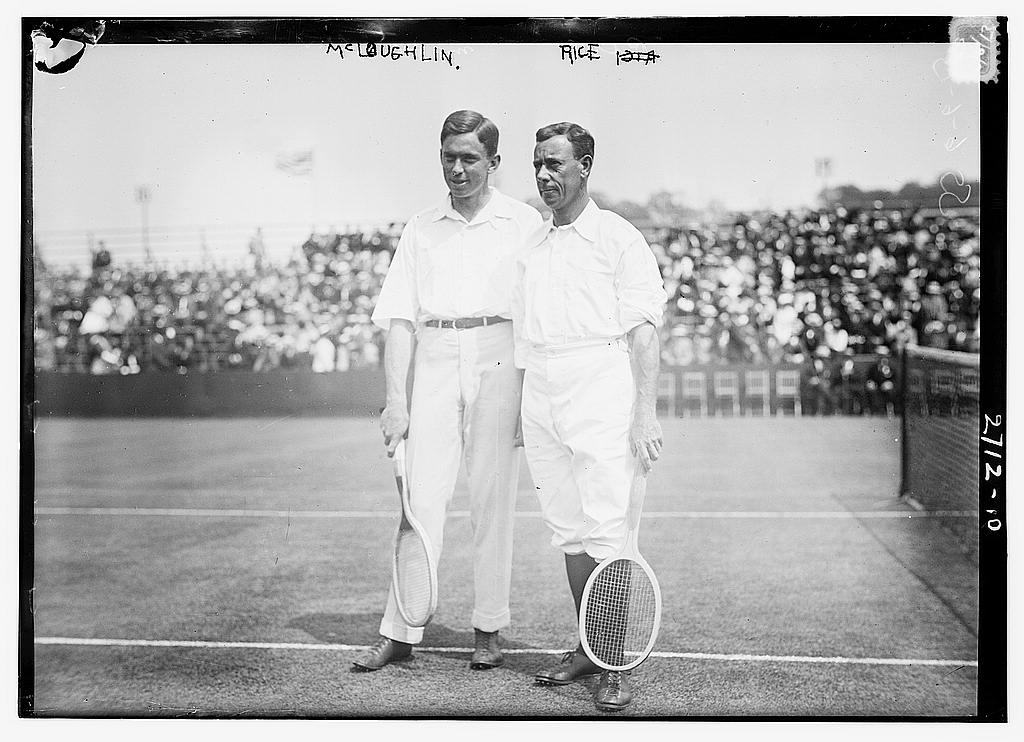 Bain News Service,, publisher. McLoughlin [and] Rice [tennis] [1913 June 6] 1 negative : glass ; 5 x 7 in. or smaller. Notes: Title from data provided by the Bain News Service on the negative. Photo shows American tennis player Maurice McLoughlin (1890-1957) and Australian tennis player Horace M. Rice during the quarter finals of the Davis Cup competition, West Side Tennis Club, New York City, June 6, 1913. (Source: Flickr Commons project, 2009 and New York Times, June 7, 1913) Forms part of: George Grantham Bain Collection (Library of Congress). Format: Glass negatives. Repository: Library of Congress, Prints and Photographs Division, Washington, D.C. 20540 USA, General information about the Bain Collection is available at Persistent URL: Call Number: LC-B2- 2712-10